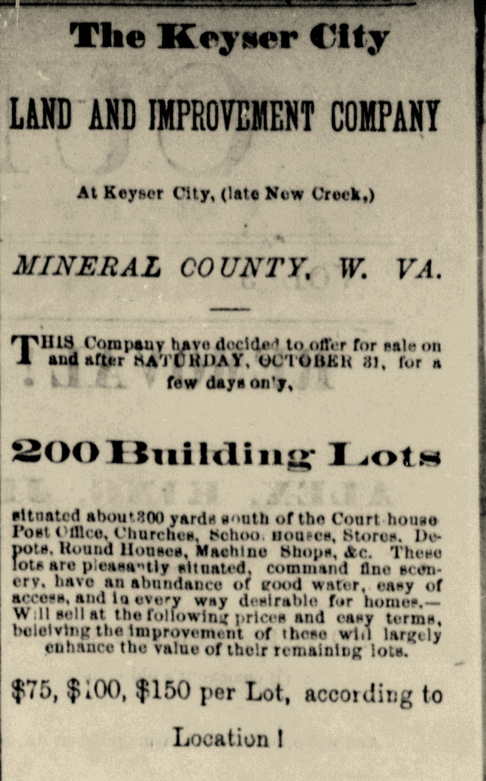 Cumberland Daily News, April 23, 1875